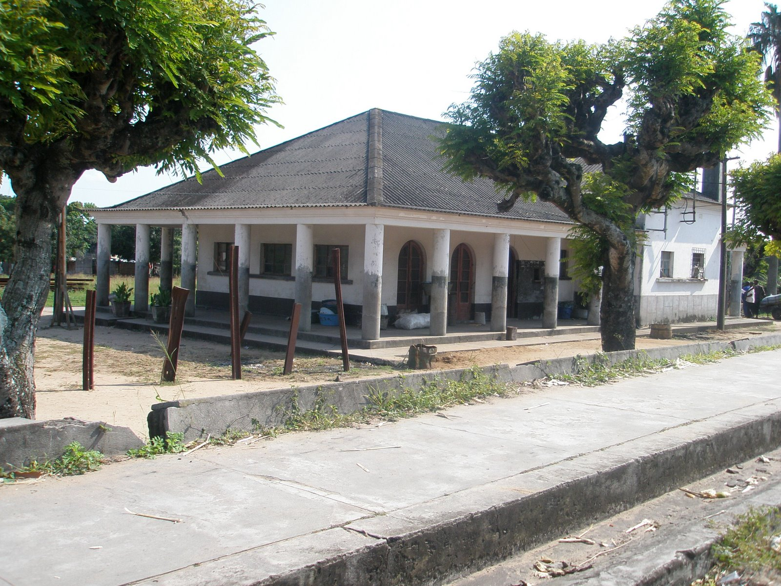 Railway building of Manhiça, Moçambique, in Limpopo line.